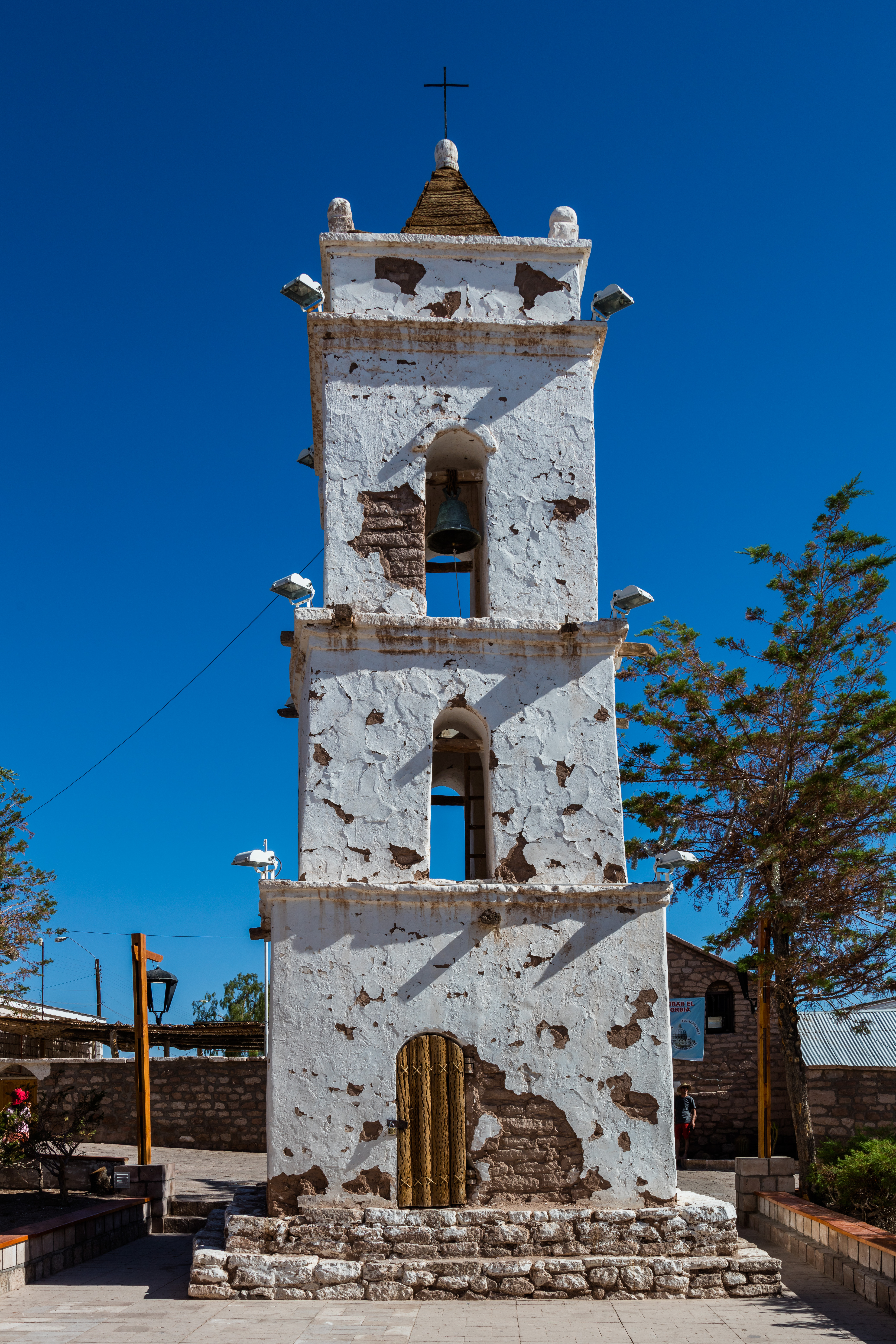 Bell tower of San Lucas, Toconao, Chile